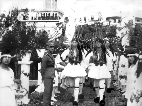 Ceremonial marching of Evzones in occupied Smyrna (Izmir)